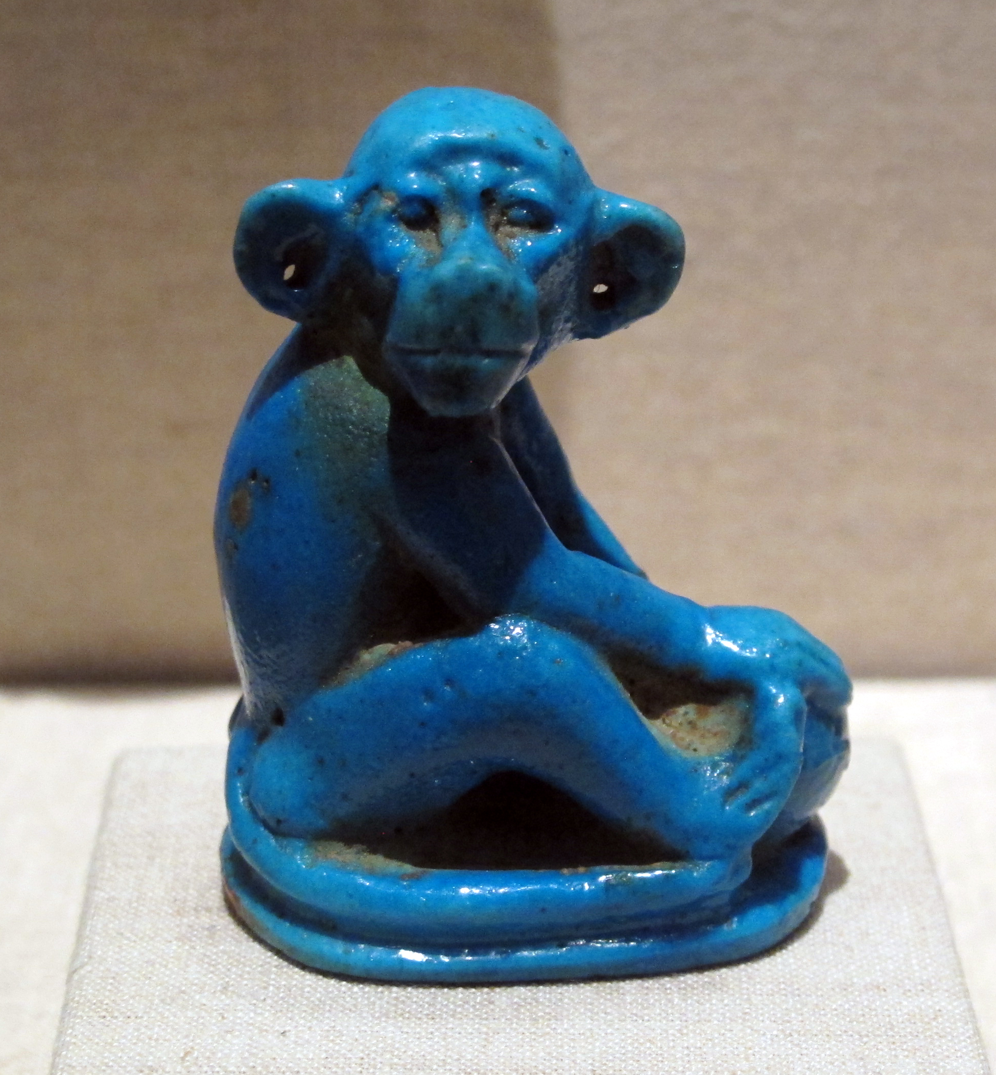 Egyptian antiquities in the Brooklyn Museum